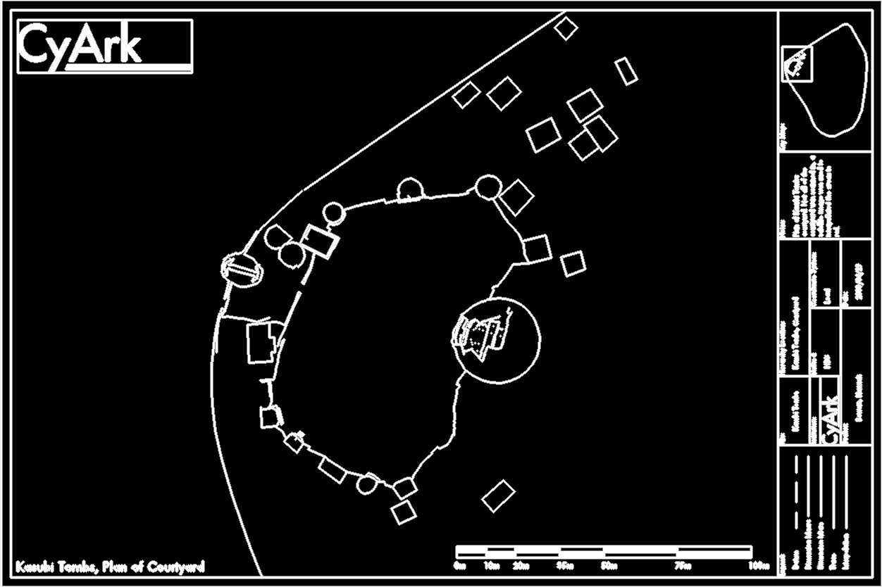 The courtyard is dominated by the Muzibu-Azaala-Mpanga at its center, is enclosed by a reed fence, and ringed by many small houses which were built for the widows of the Kabakas and for other ritual purposes. Kabaka Mutesa I had eighty-four wives and over one hundred children; these houses were built to house some of his favorite wives and their female matrilineal descendants. Later Kabakas continued the tradition, and their wives lived here as well. Today, they are mainly occupied by female descendants of the wives of the Kabakas, who each live in them around two months out of the year. Certain of these women, however, live at the site year-round.